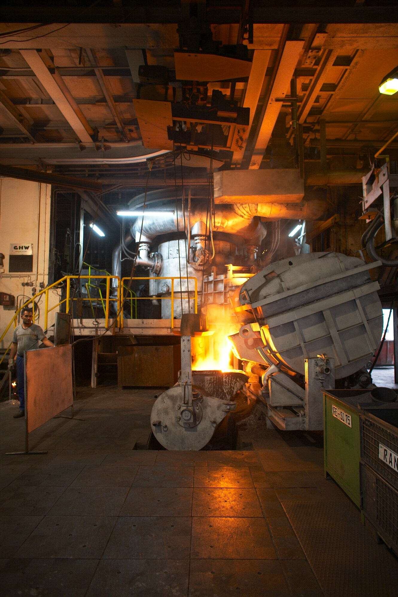 Cupola furnace of the Giesserei Heunisch company, hot metal mixer and ladle.